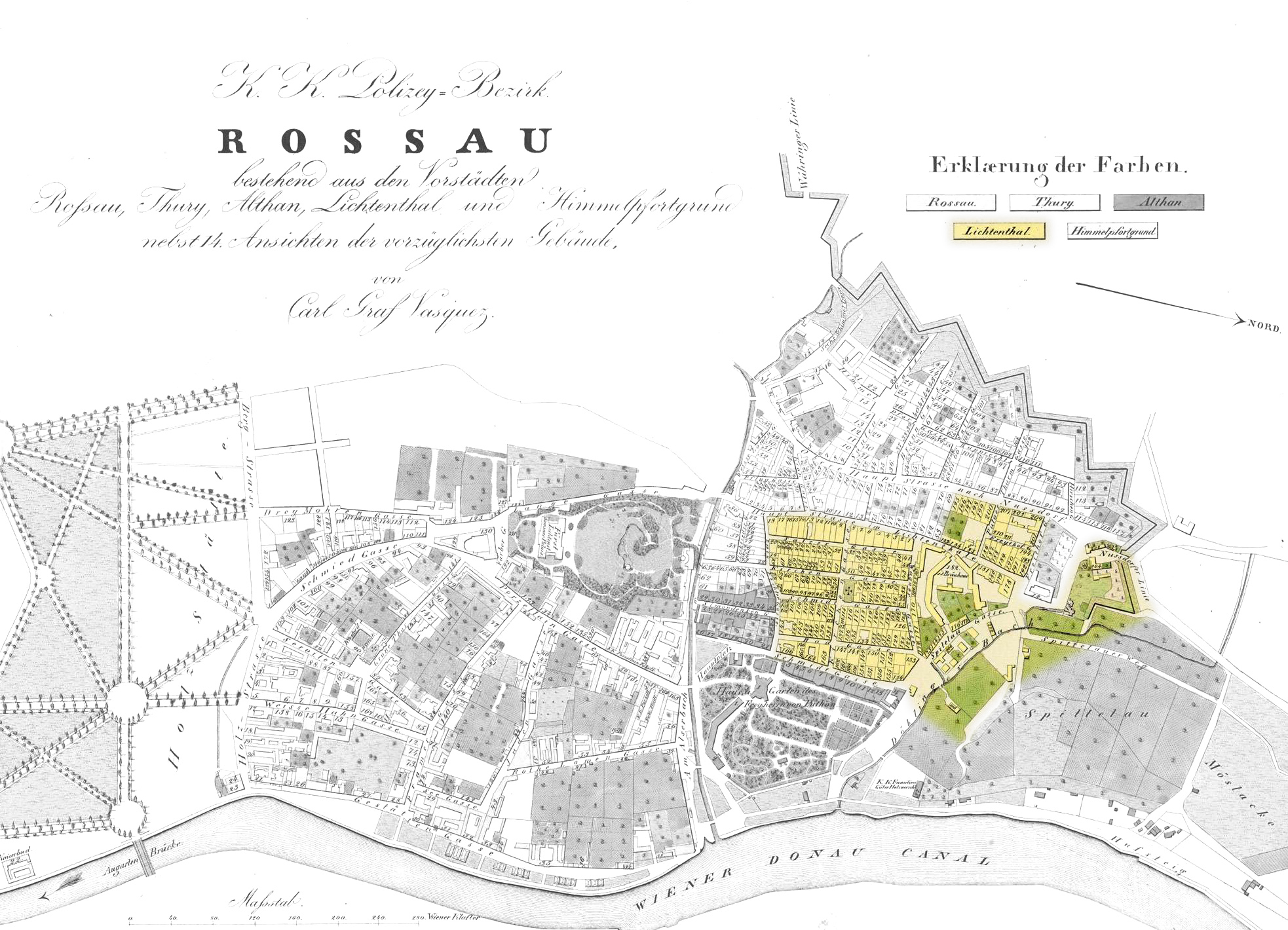 Map of Vienna / Lichtental, approx. 1830